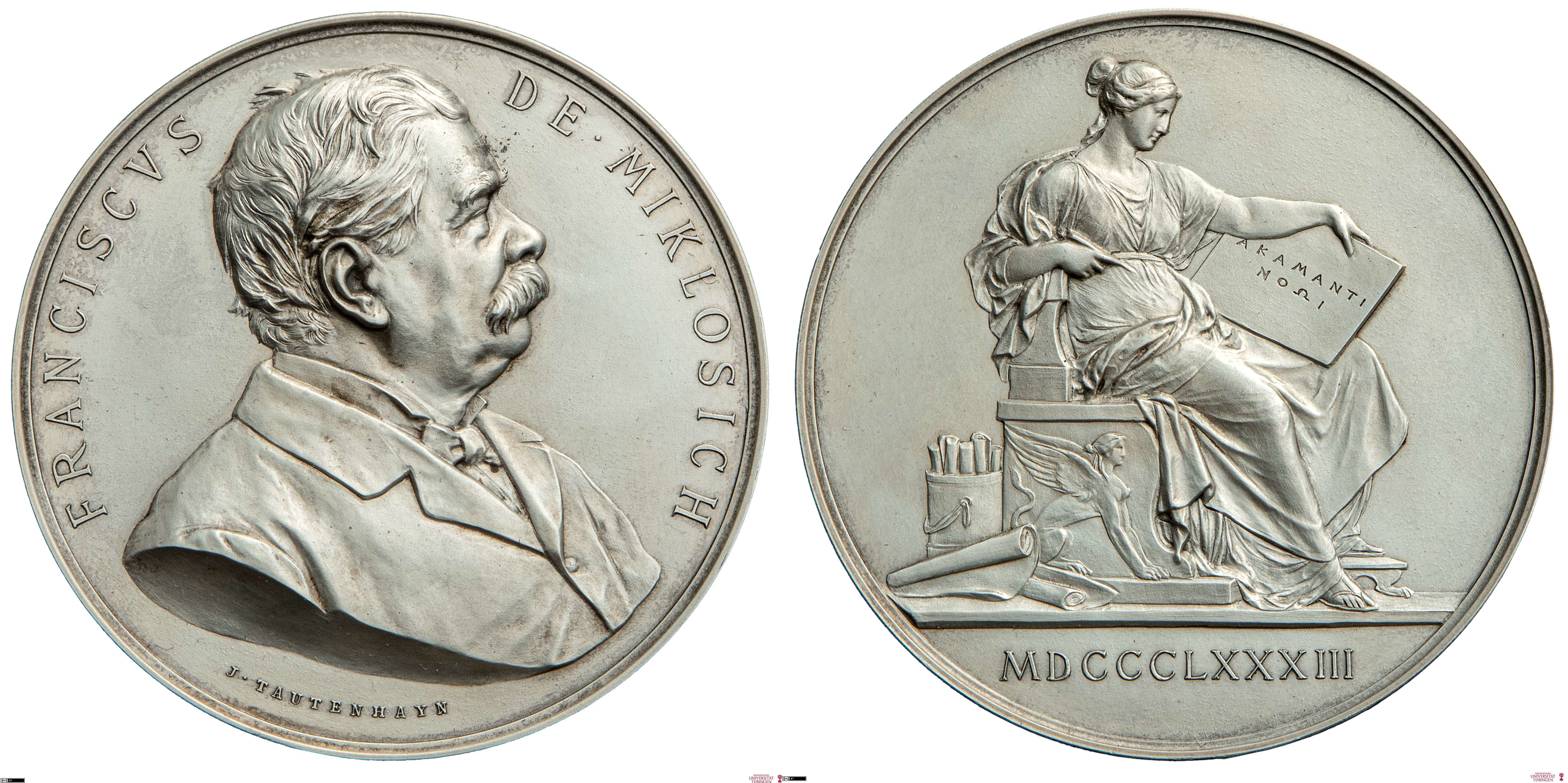 The front depicts a bust of Miklosich surrounded by his name in Latinised form. The engraver signed below the bust. The back side pictures a reclining woman on a throne surrounded by scrolls. She holds a stilus and a board showing a dedication in ancient Greek. Below her the date of coinage is given in Latinised form.